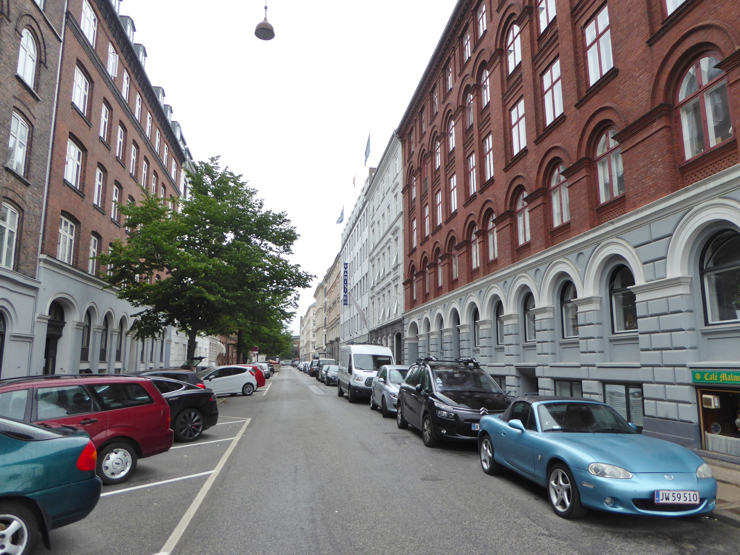 The street Peder Skrams Gade in Indre By in Copenhagen.